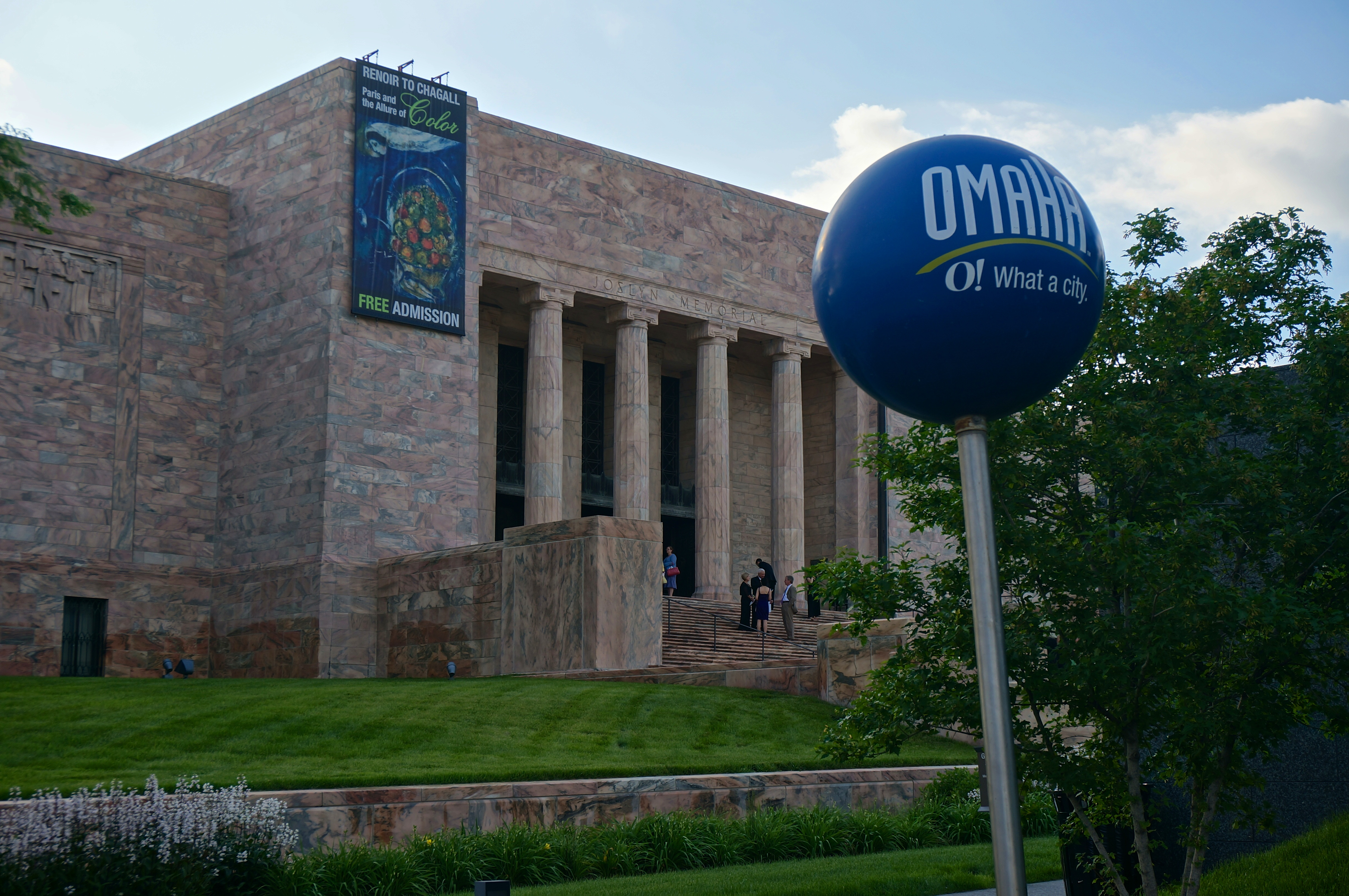 Joslyn Art Museum